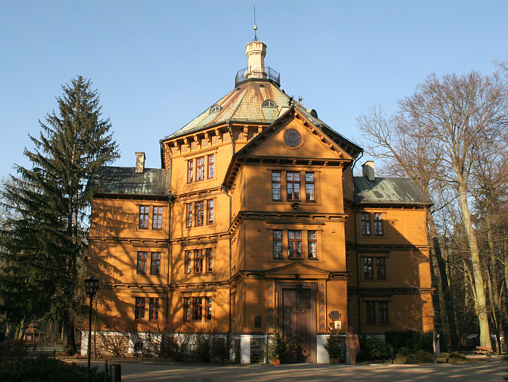 Palac a Antoninie Autor: Michał "Cronwood" Babilas